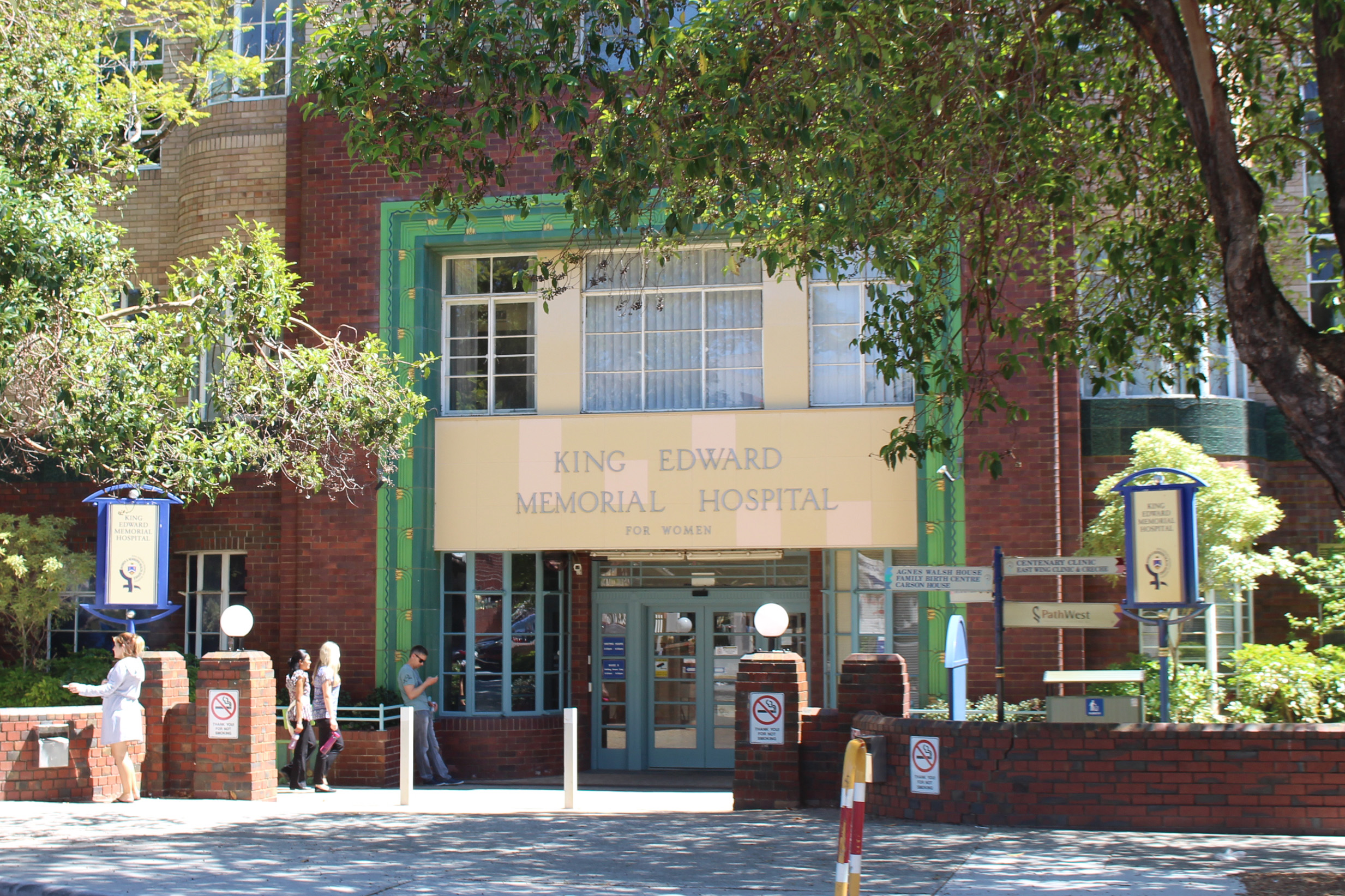 Main entrance of Block A building of King Edward Memorial Hospital for Women in Subiaco, Western Australia. Photographed from Bagot Rd.